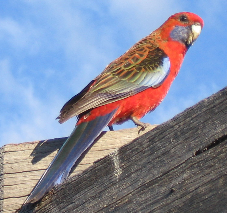 A Crimson Rosella photographed near Gloucester, NSW, Australia.